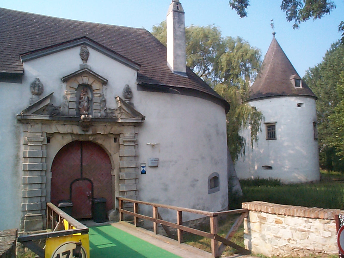 Kobersdorf - Kabold, Austria. Castle.